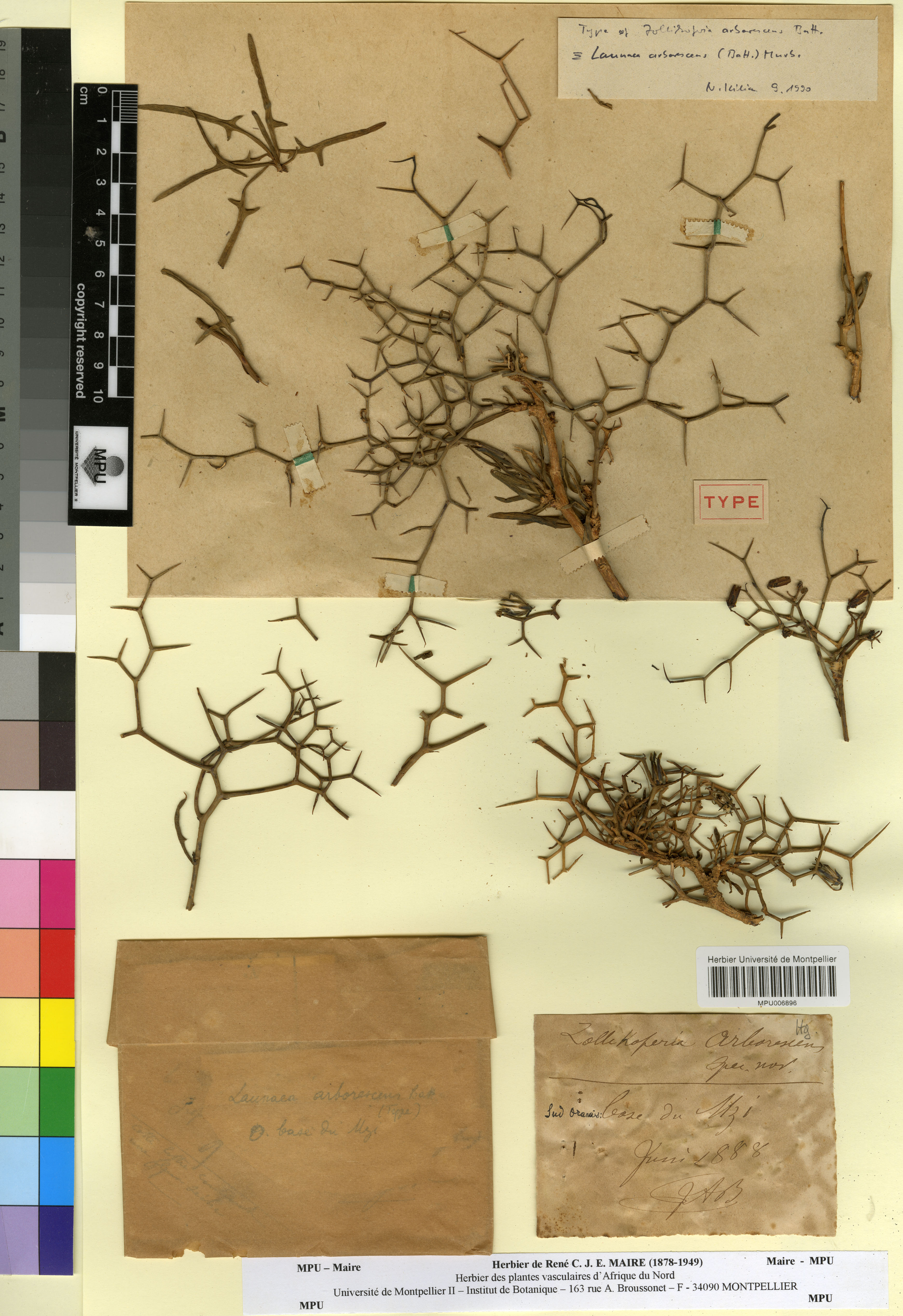 Holotype of Zollikoferia arborescens Batt. = Launaea arborescens (Batt.) Murb., Jules Aimé Battandier, 1888, Sheet 1. University Montpellier II, Institute of Botany.